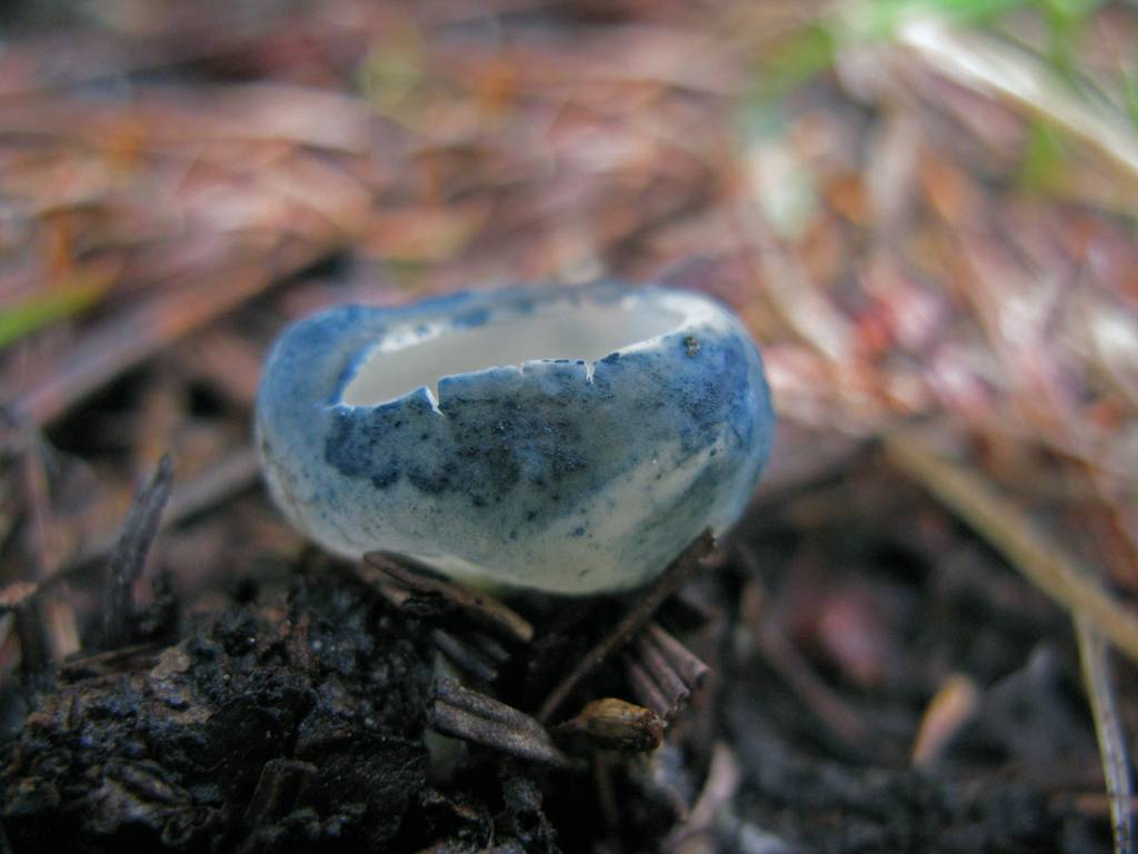 Fruit body of a rare albino mutant of the cup fungus Caloscypha fulgens (Pers.) Boud. Specimen found in Last Chance Campground near McCall, Idaho, USA.